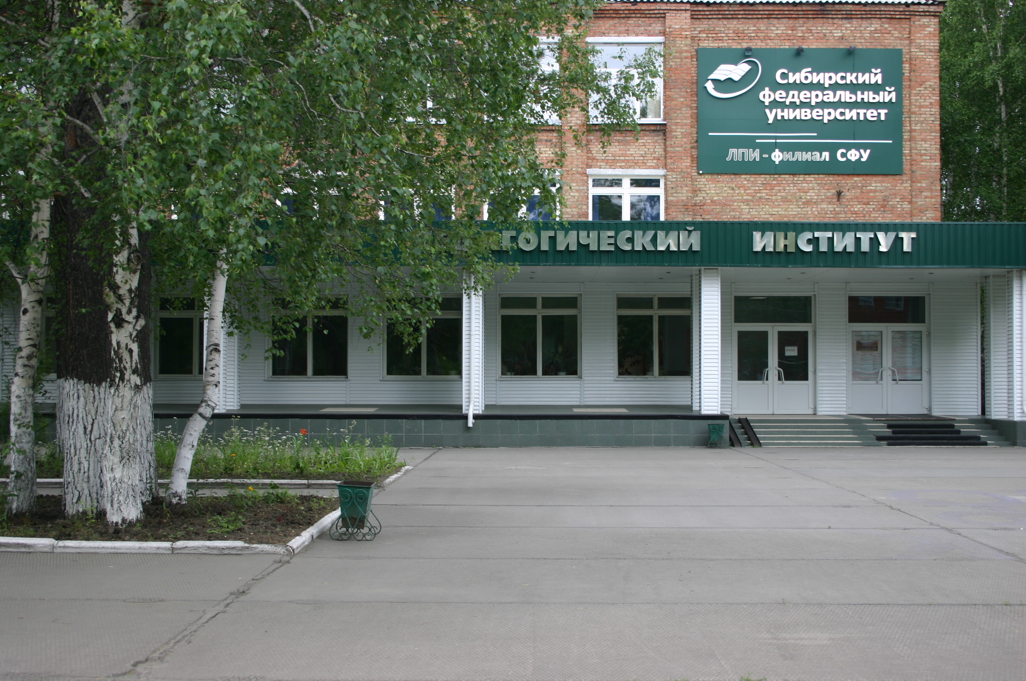 ЛПИ - филиал СФУ